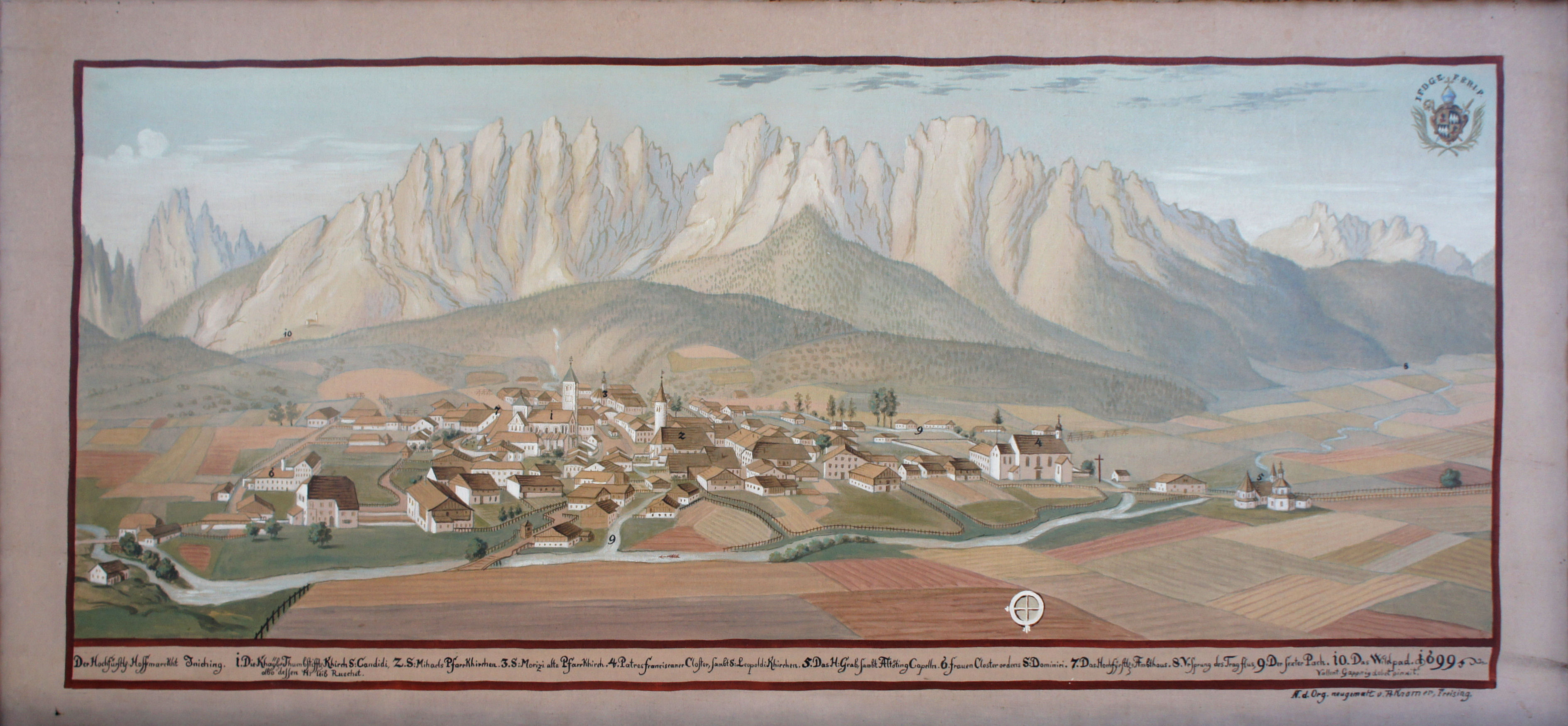 Panorama of Innichen (called San Candido by Italian) in South Tyrol, Italy. Part of a series of 32 paintings executed by Valentin Gappnigg between 1698 and 1702. Gappnigg had been commissioned by the prince-bishop of Freising, Johann Franz Eckher von Kapfing und Liechteneck, to paint views of the various possessions of the prince-bishopric. While the core territories of Freising were located in Bavaria, it also included several far-flung enclaves located inside Tyrol, Styria, Carinthia, Upper Austria and Carniola (now Slovenia).